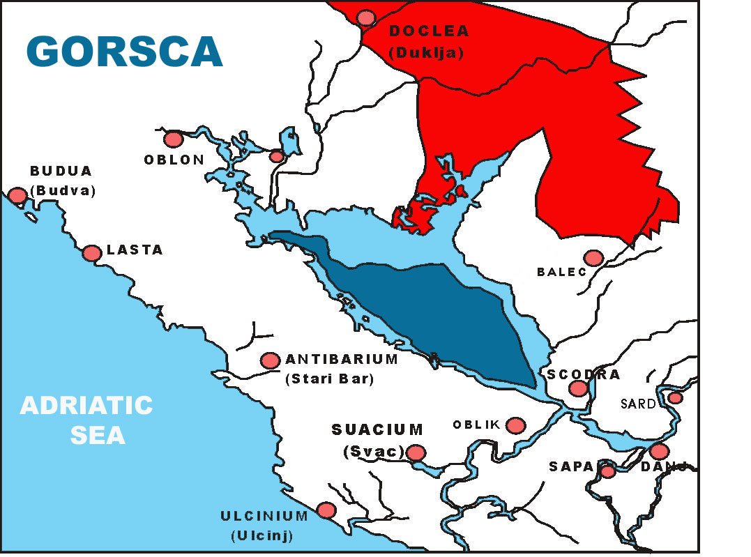 Gorsca district (Dioclia, XI c. AD)